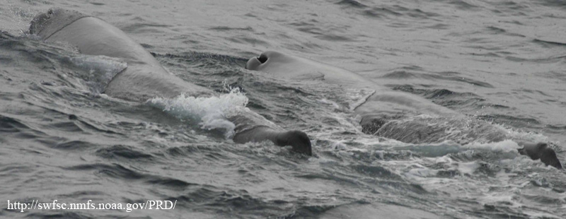 Sperm Whale